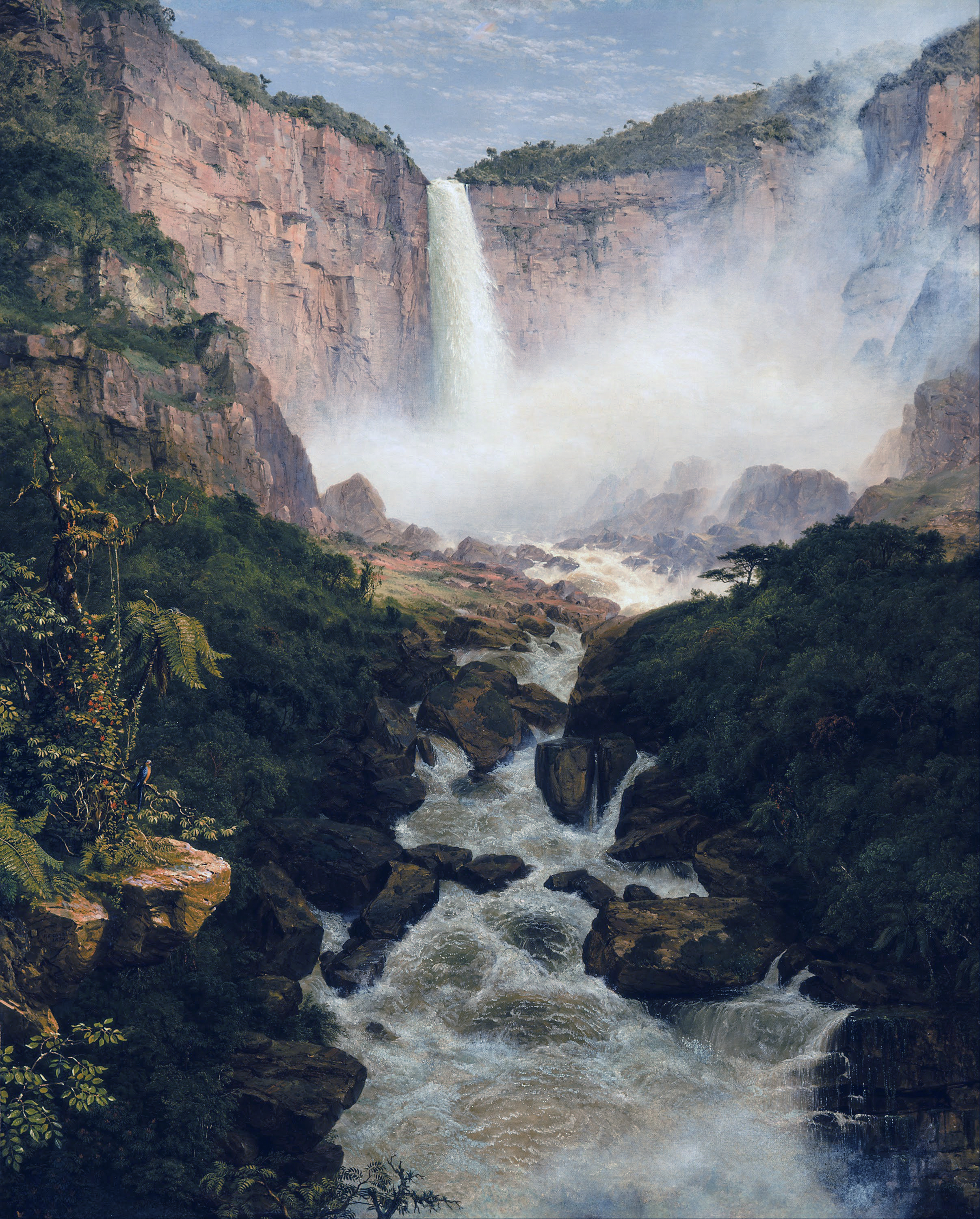 The Fall of Tequendama, Near Bogotá, New Granada oil on canvas 153.5 x 122 cm 1854